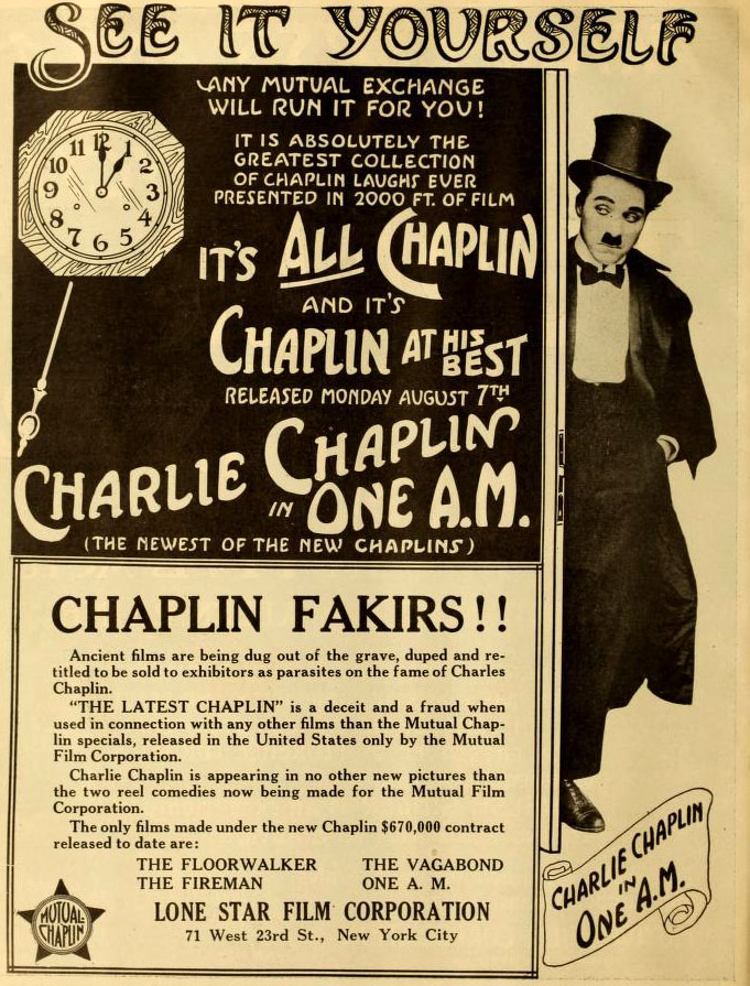 Advertisement in The Moving Picture World